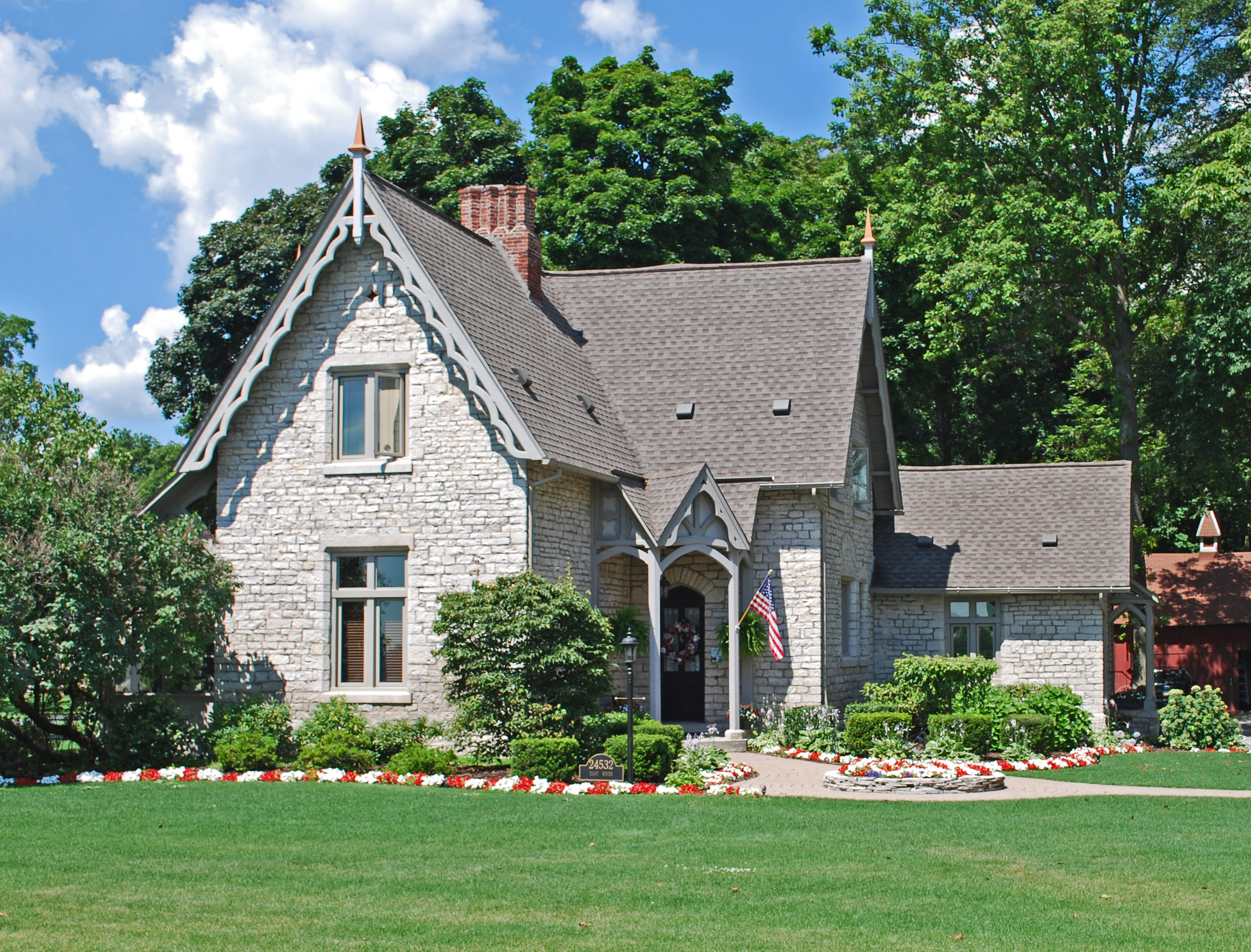 House, East River Rd Historic District, Grosse Ile MI